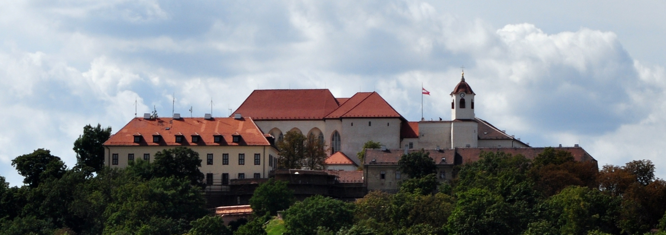 Špilberk castle in Brno